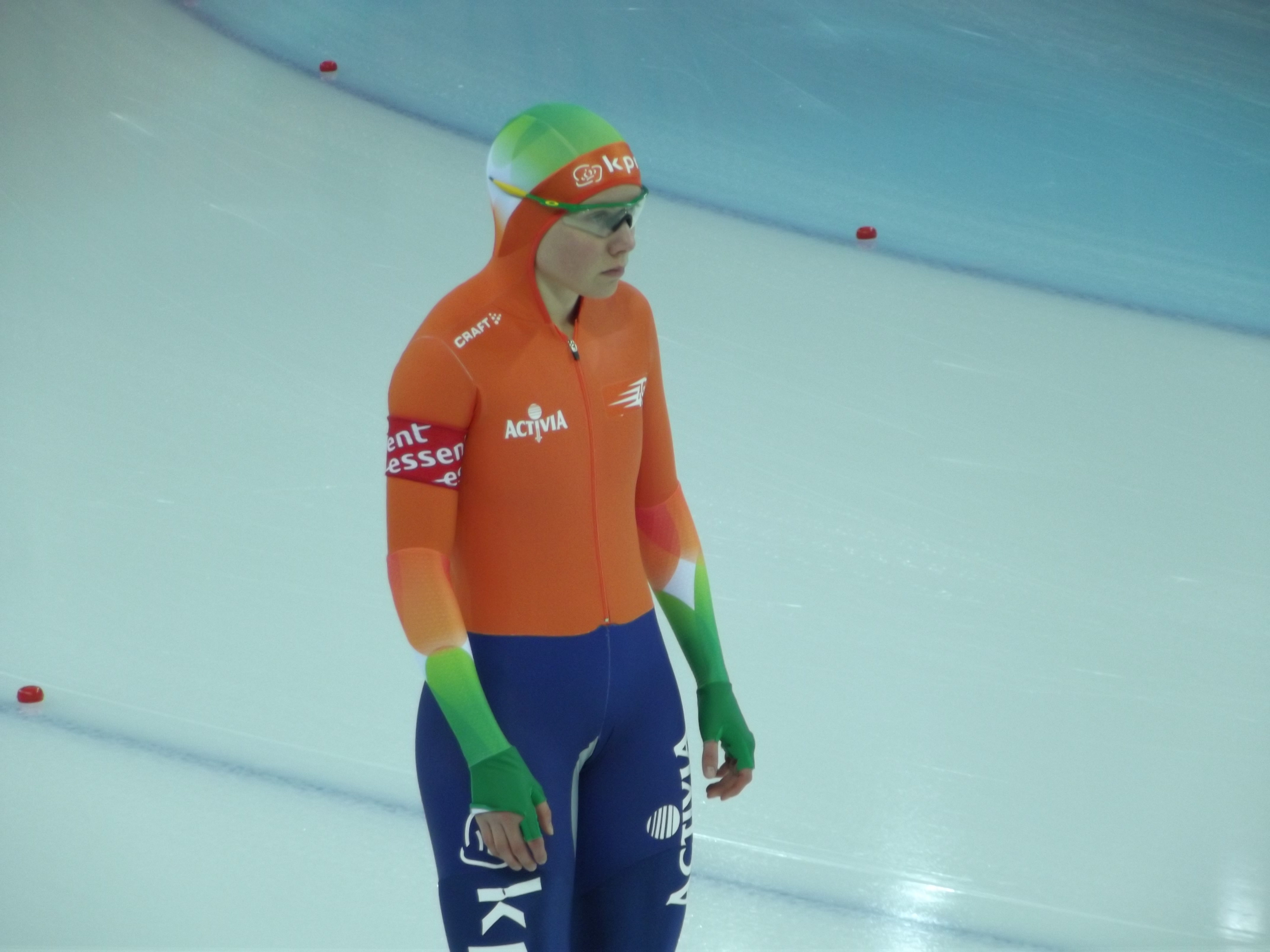 2013 World Single Distance Speed Skating Championships